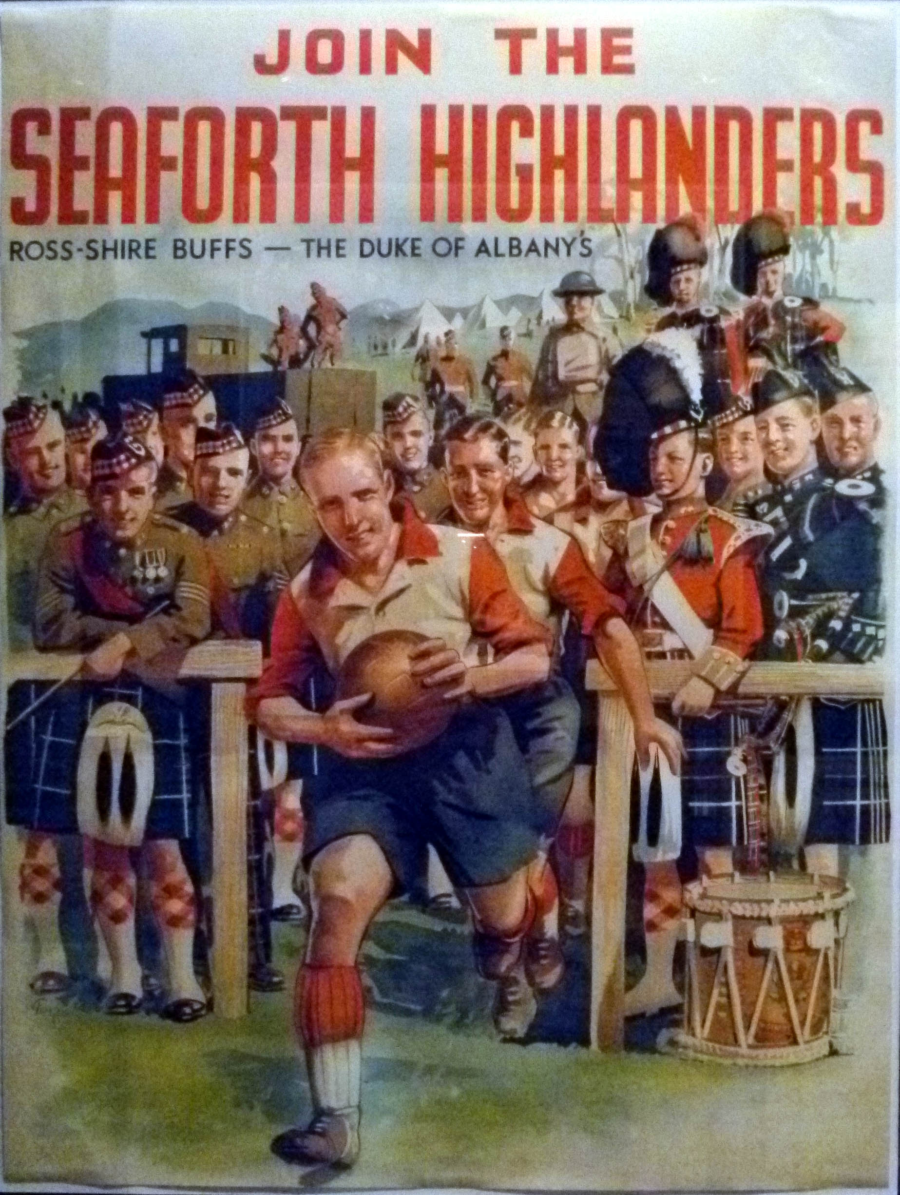 Recruiting poster of the Seaforth Highlanders, a historic line infantry regiment of the British Army, mainly associated with large areas of the northern Highlands of Scotland (years active, 1881–1961). The poster is on display in the Scottish National War Museum, Edinburgh Castle.